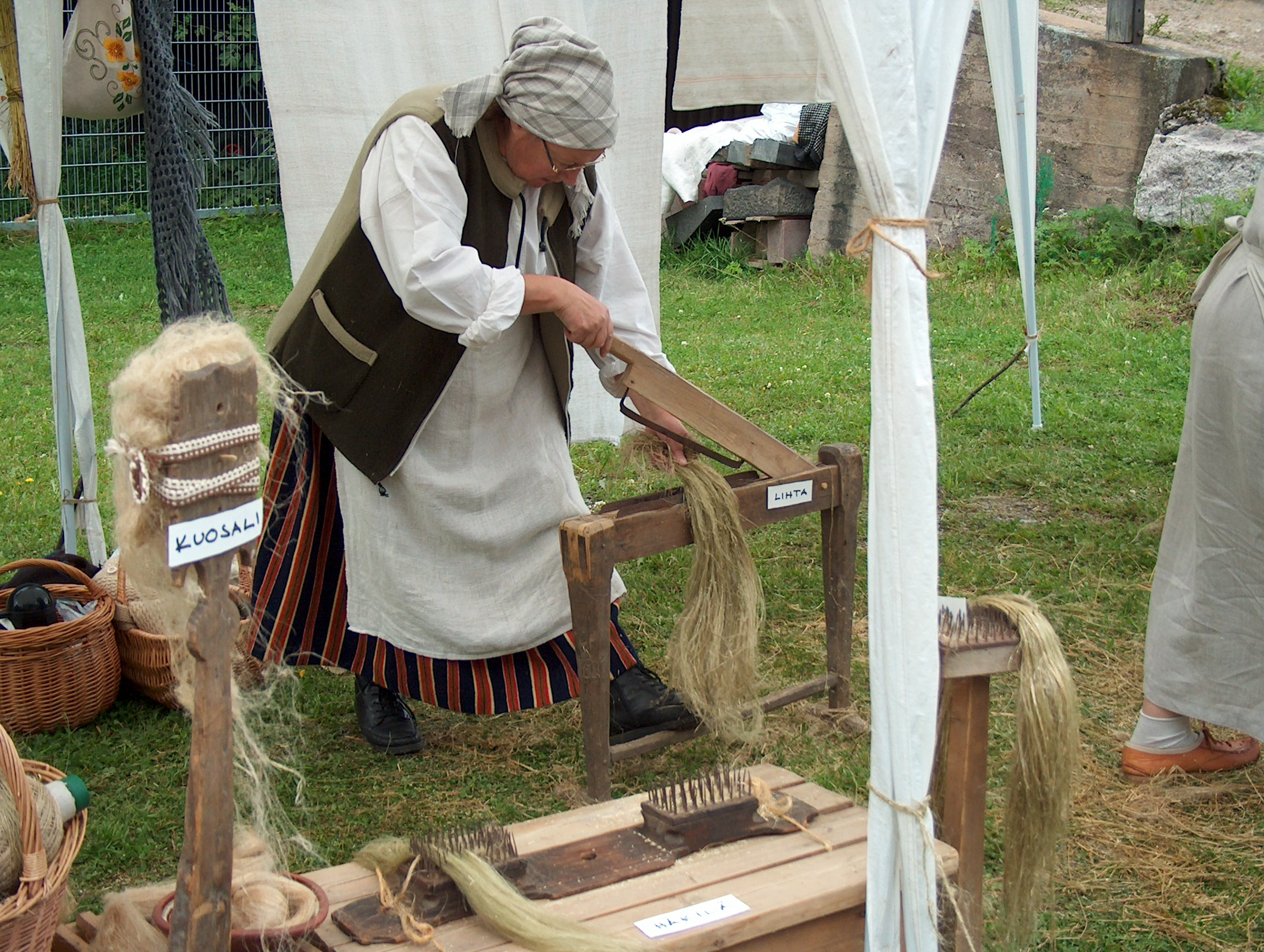 Breaking flax during Anttila Harvest Market in Tuusula, Finland